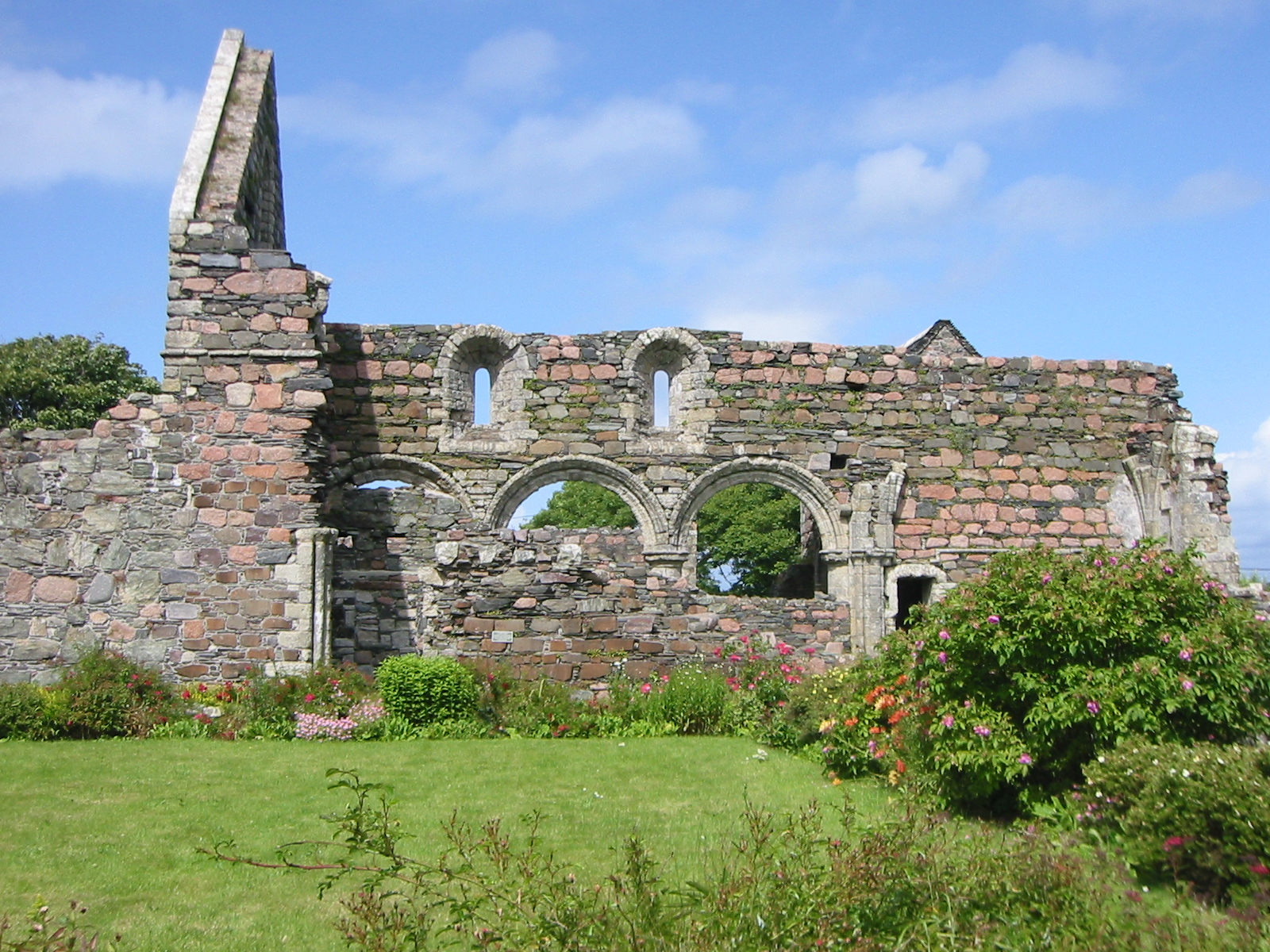 Nunnery, Isle of Iona, Scotland